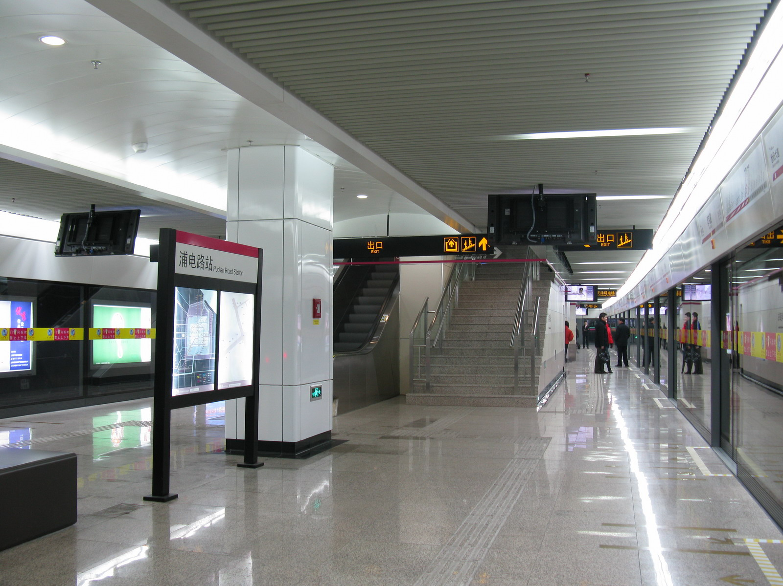 浦电路站 6号线月台 Line 6 Platform of Pudian Road Station